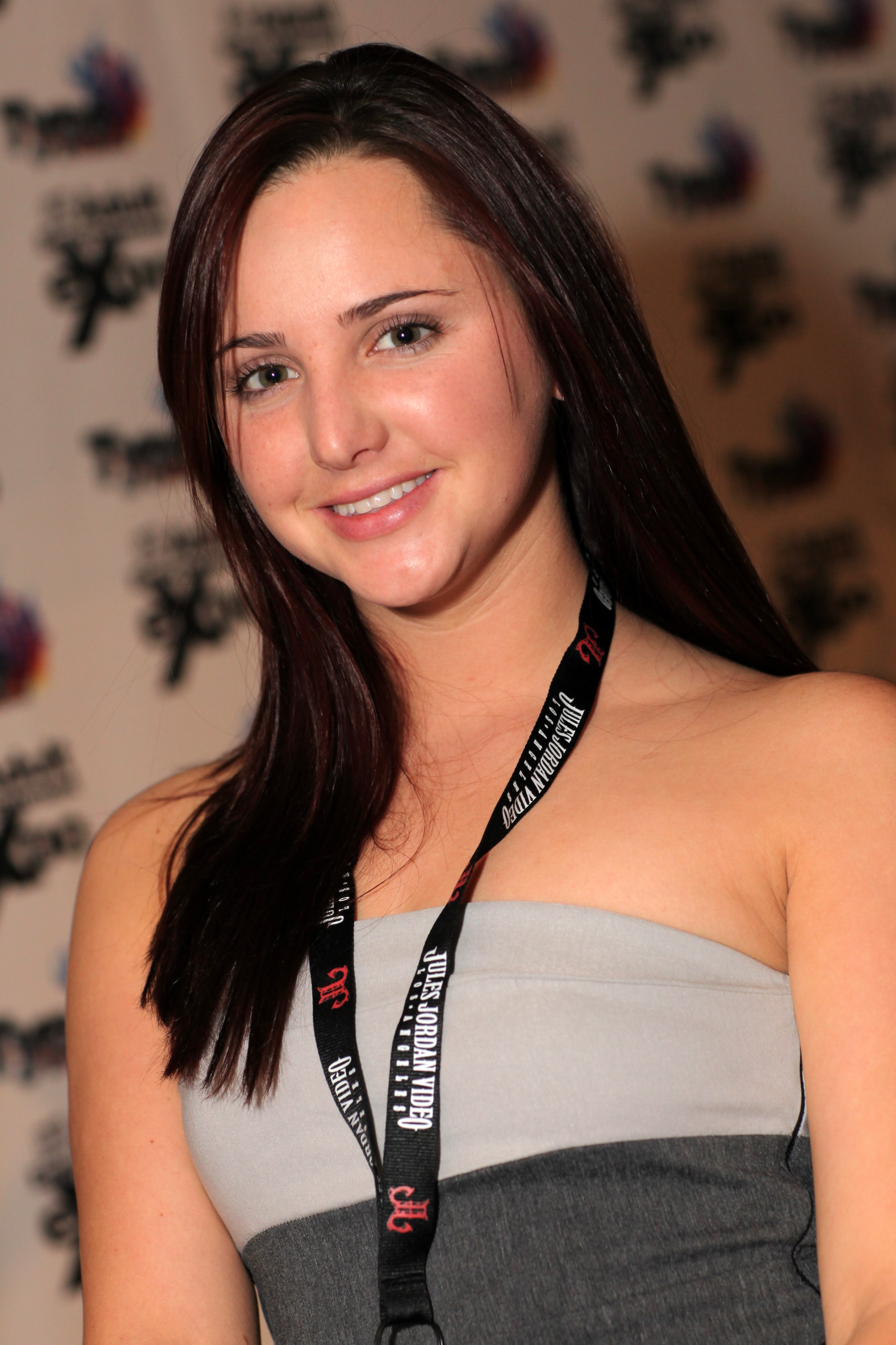 Hope Howell at the AVN Expo Photos Las Vegas 2013. Photos from the 2013 AVN Expo & AVN Awards held at the Hard Rock Hotel & Casino in Las Vegas. Photo by Michael Dorausch. Please do tweet these photos but don't remove my copyright info without asking. This photo is licensed under a Creative Commons license. If you use this photo within the terms of the license or make special arrangements to use the photo, please list the photo credit as "Michael Dorausch" and link the credit to .